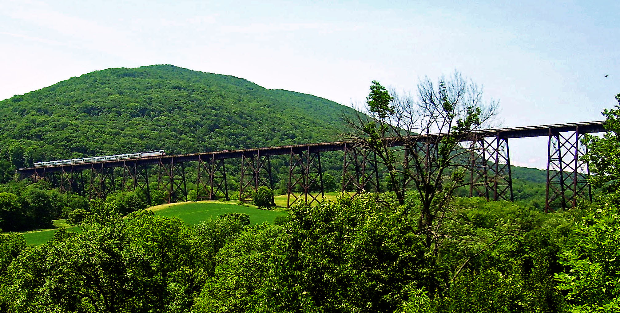 NJ Transit train going over Moodna Viaduct from Orrs Mills Road in Cornwall, NY